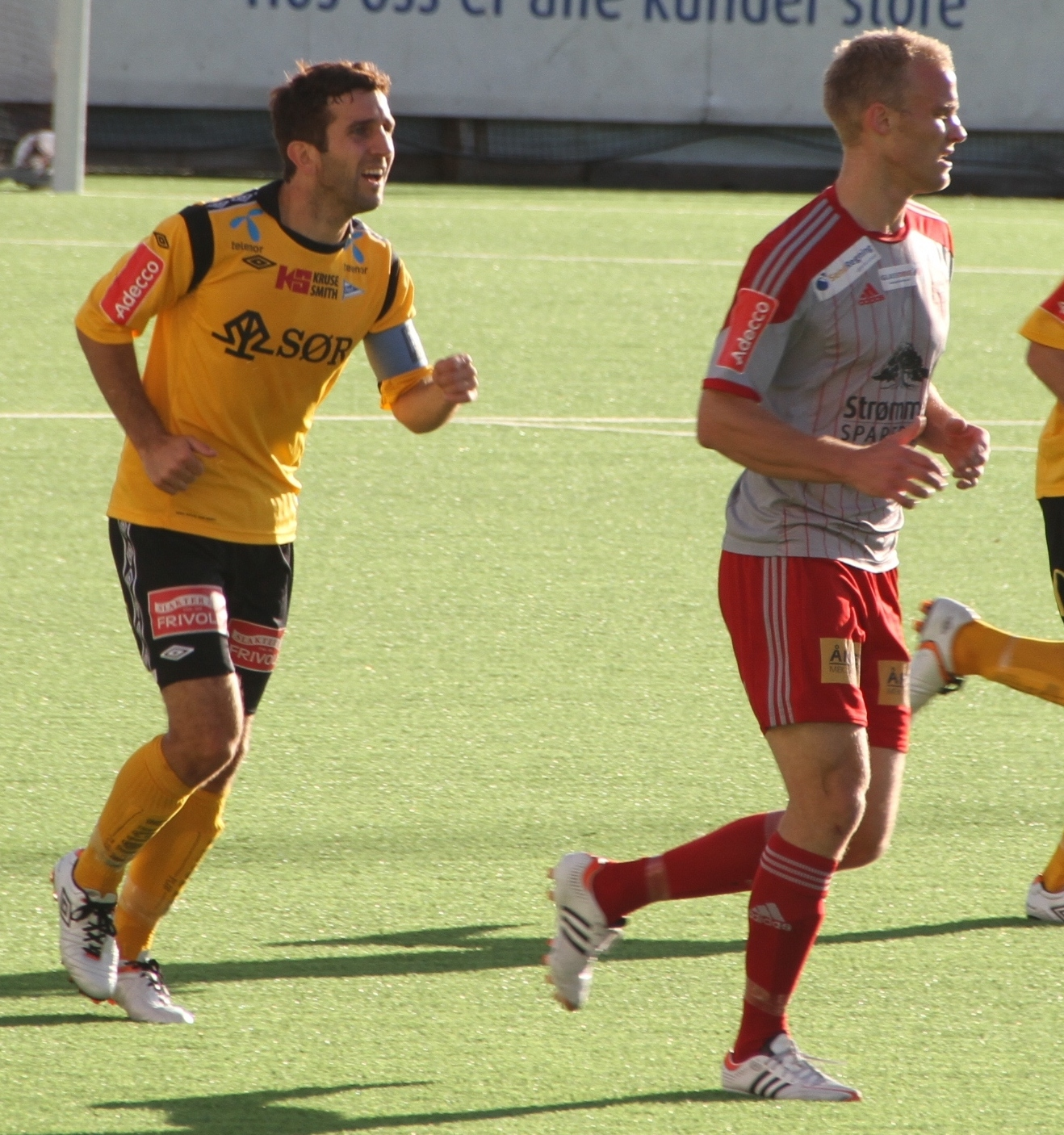 IK Start player (yellow) in a match against Strømmen IF. August 26, 2012 at Strømmen stadium, Akershus, Norway.